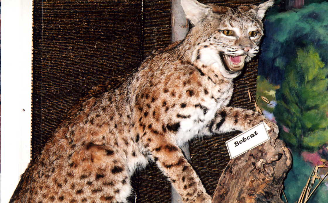 Bobcat (Lynx rufus baileyi), an exhibit at the Visitor Information Center, Mount Laguna, Cleveland National Forest, Southern California.